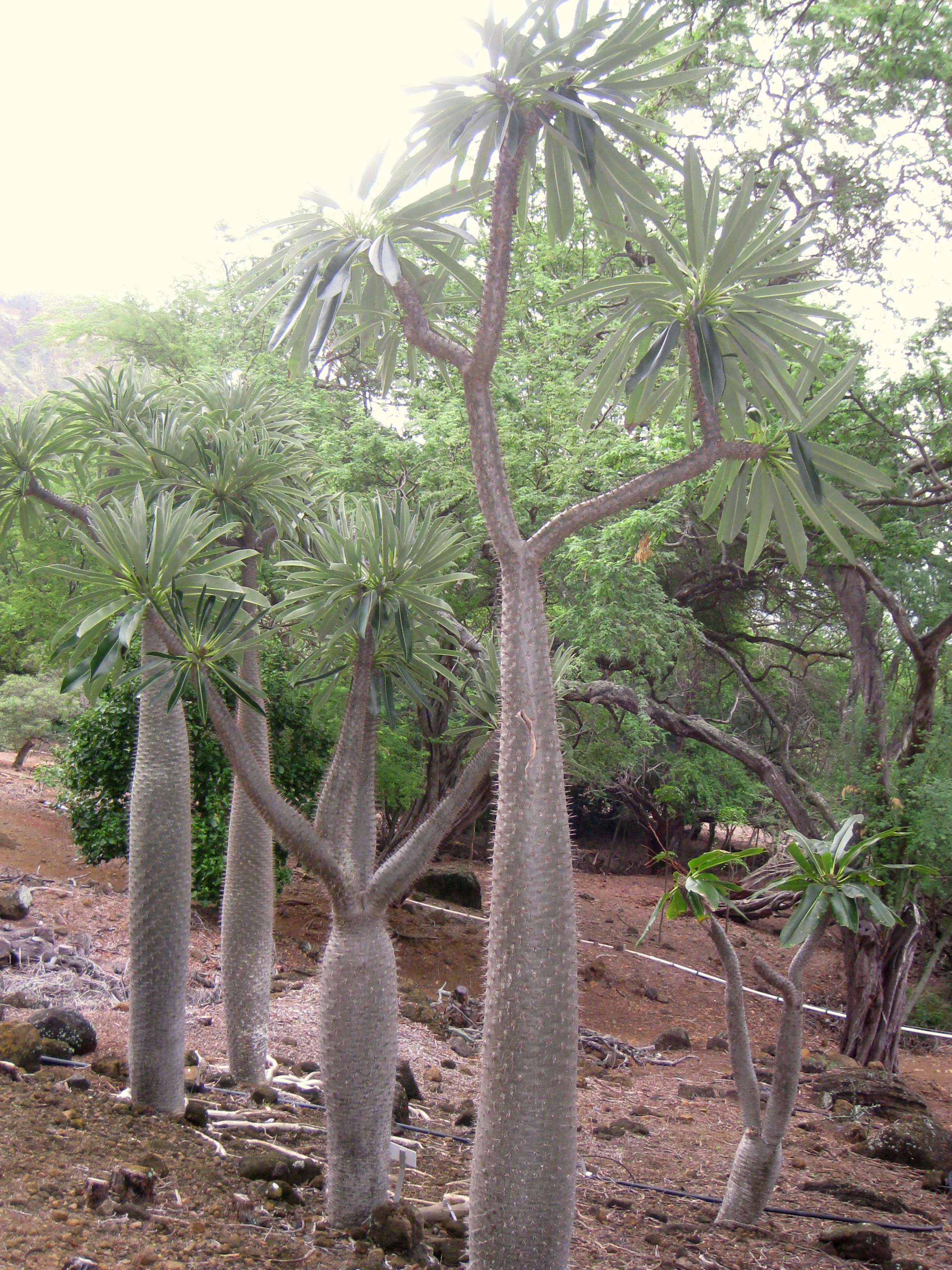 Pachypodium lamerei var. ramosum in the Koko Crater Botanical Garden, Honolulu, Hawaii, USA.